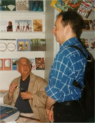 Paweł Hertz (1918-2001), Polish poet and essayist and Wojciech Karpiński (b. 1943), Polish essayist and historian